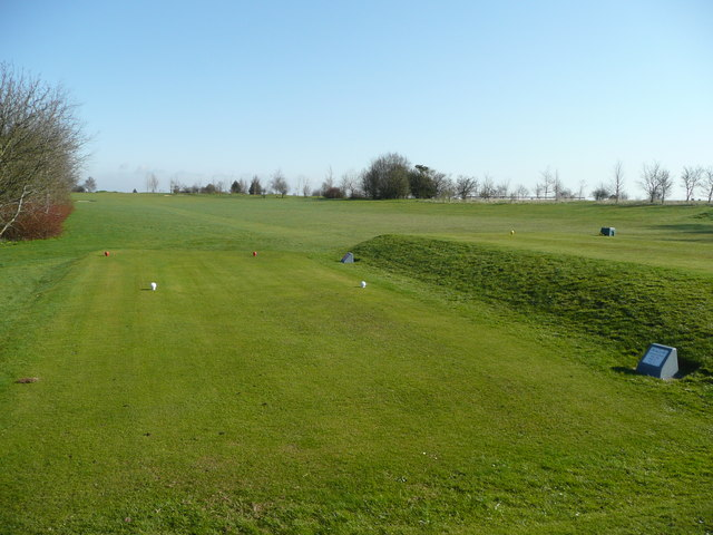 Thirteenth tee At Dunstable Downs Golf Club, east of the B4541.